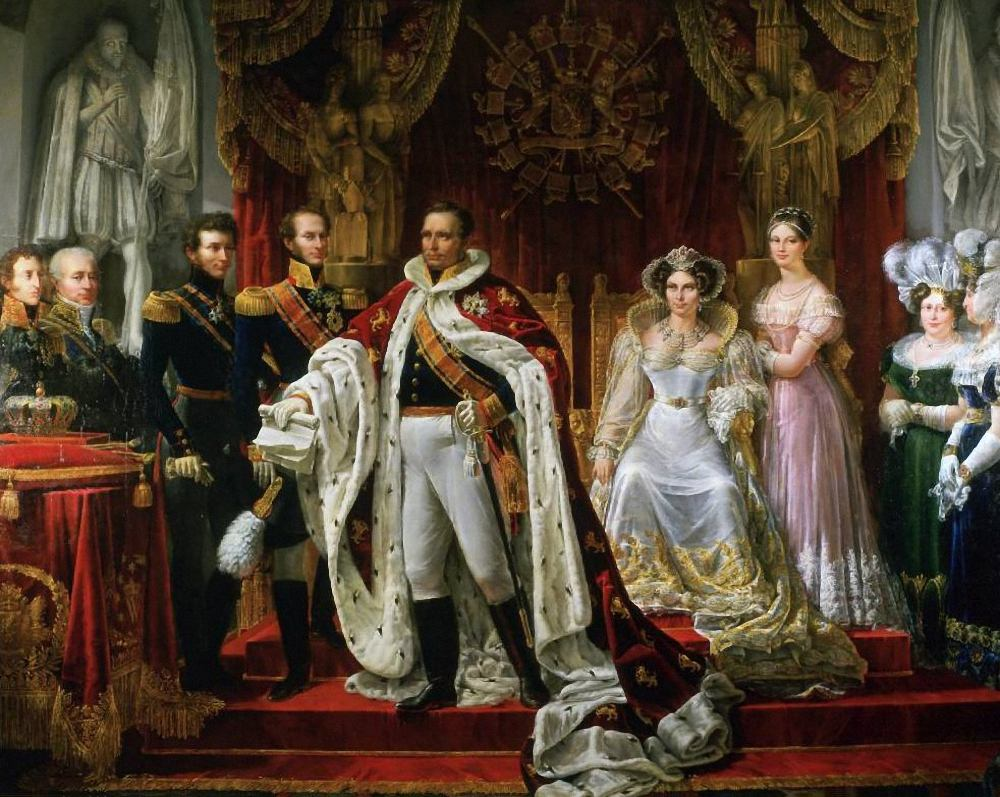 The coronation of king William I of the Netherlands in the Nieuwe Kerk of Amsterdam, 16th March 1815